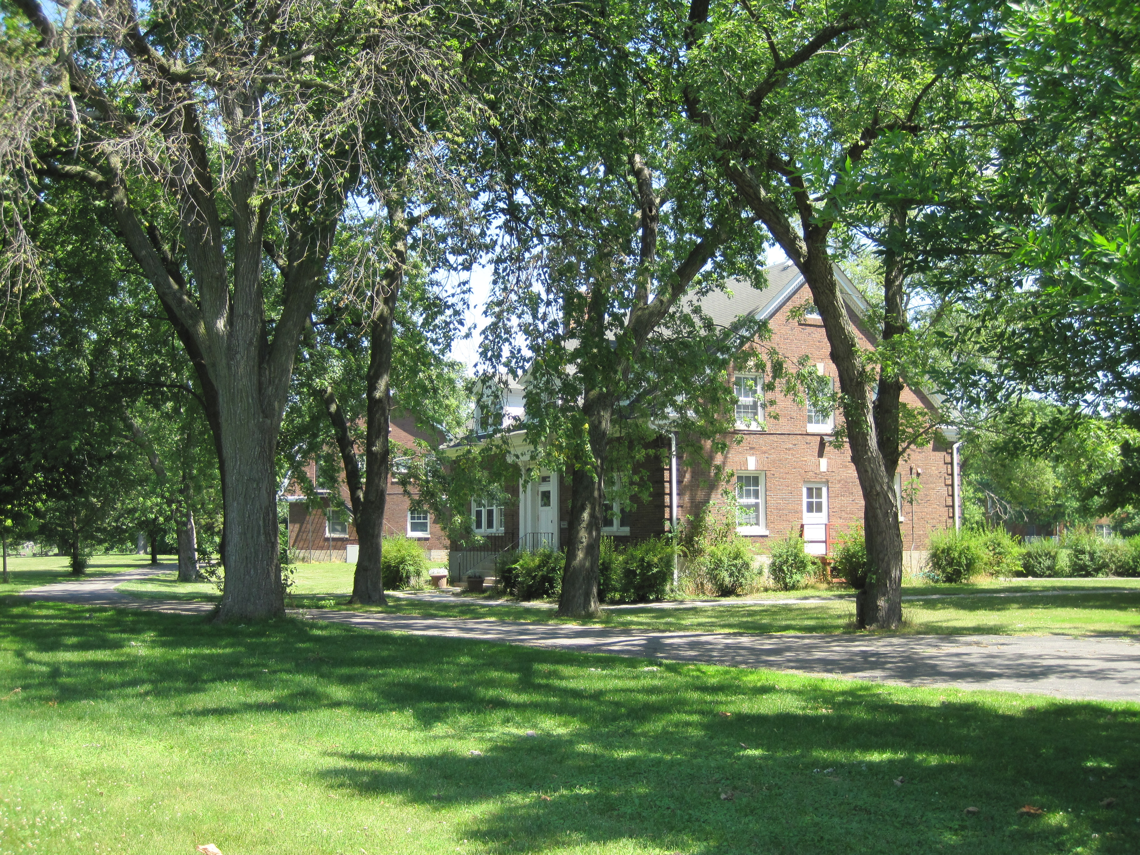 Park Ridge Youth Campus, which Maine Township High School District 207 was involved with; formerly the Illinois Industrial School for Girls